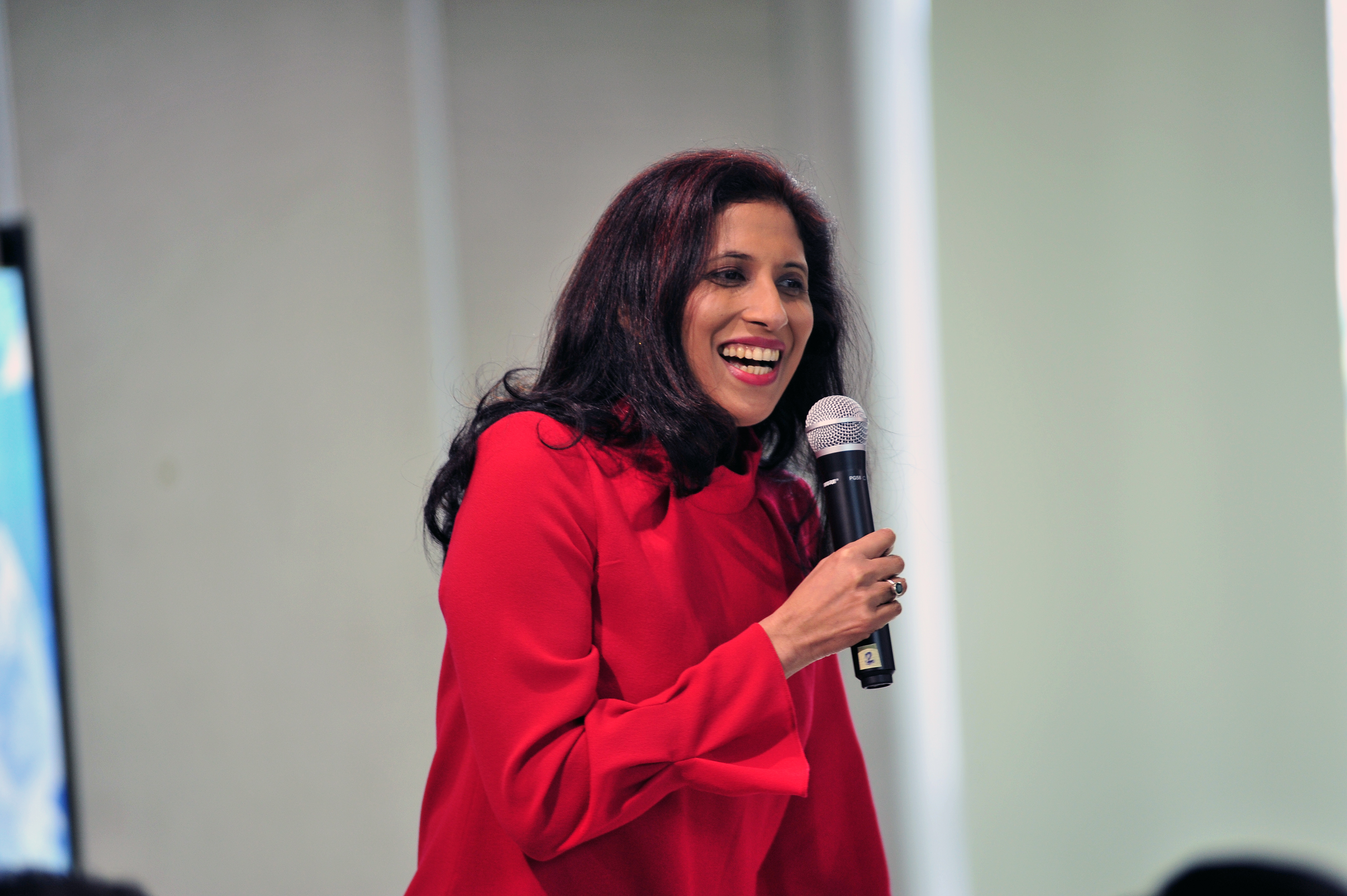 Leena Nair, Unilever Chief Human Resource Officer